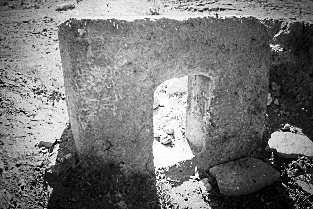 I took this photo during a six week stay in Van in 1973 while I was researching Urartian history .